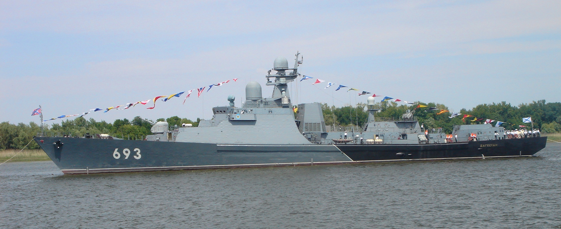 Gepard class frigate from Caspian Flotilla Dagestan